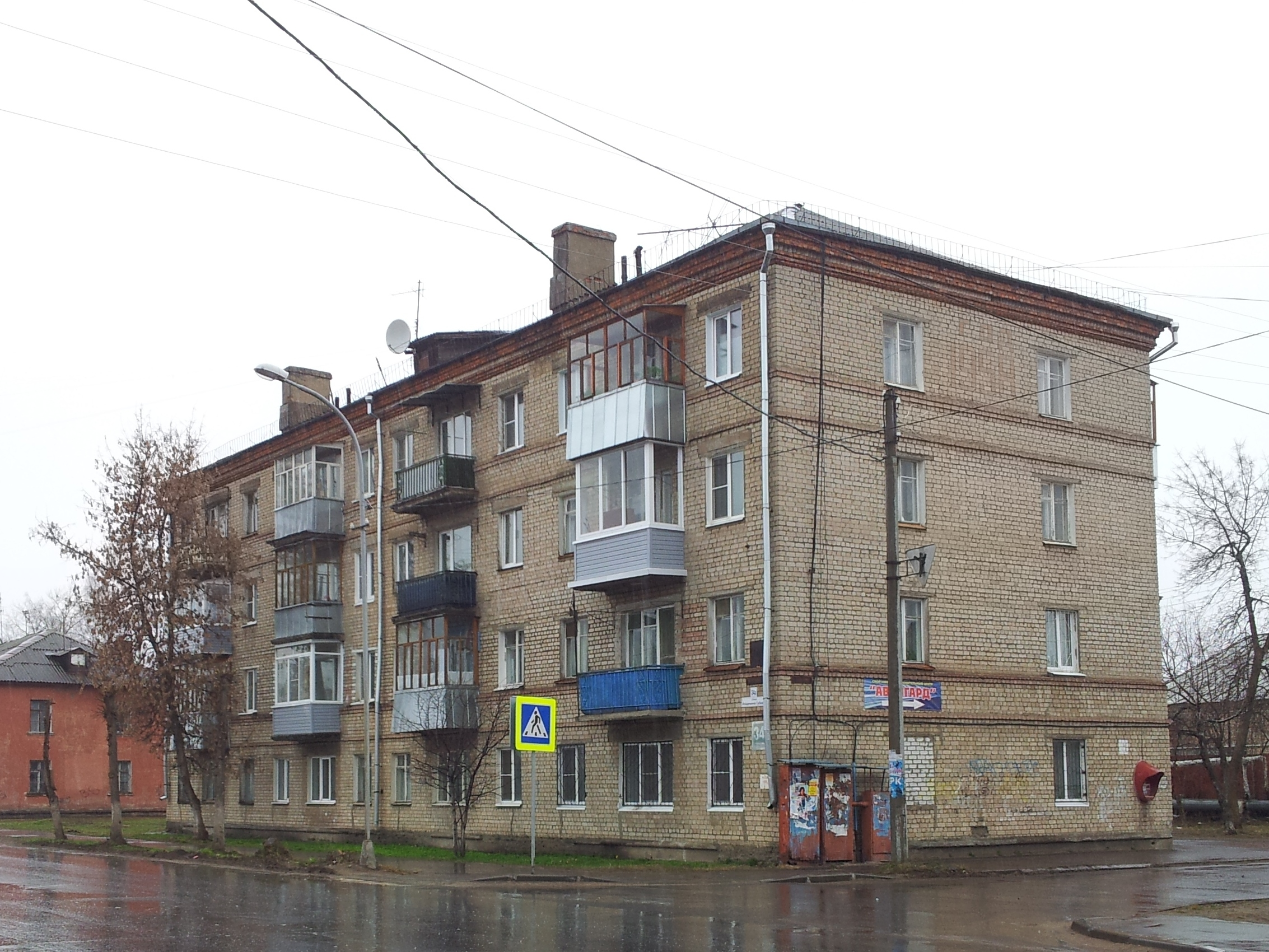 Brick Khrushchyovka built in 1958 in Rybinsk, Russia